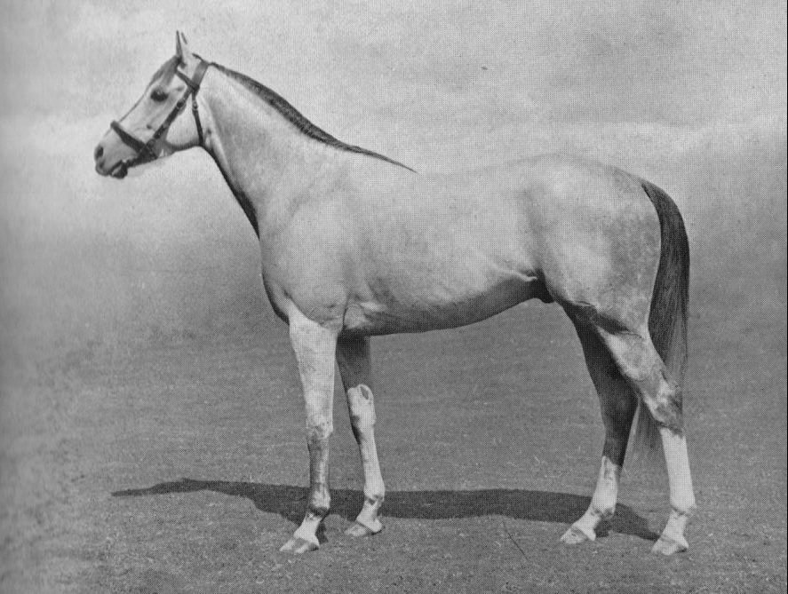 1936 Epsom Derby winner, Mahmoud, as a four-year-old in 1937.